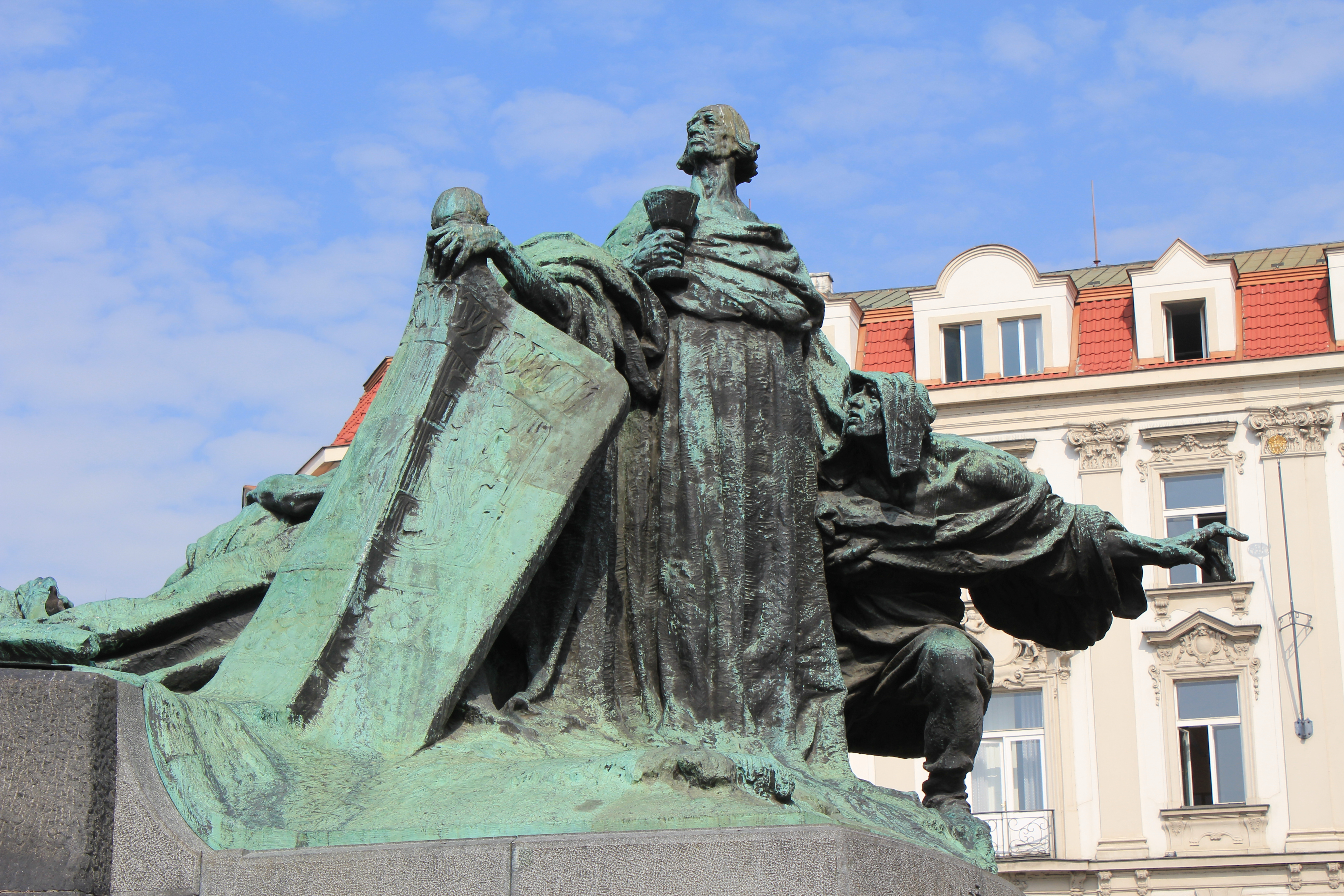 Jan Hus monument